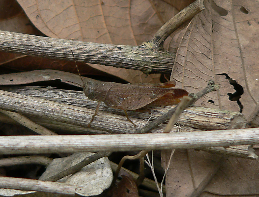 Female Eucoptacra anguliflava photographed in the Forest of Ko, Benin